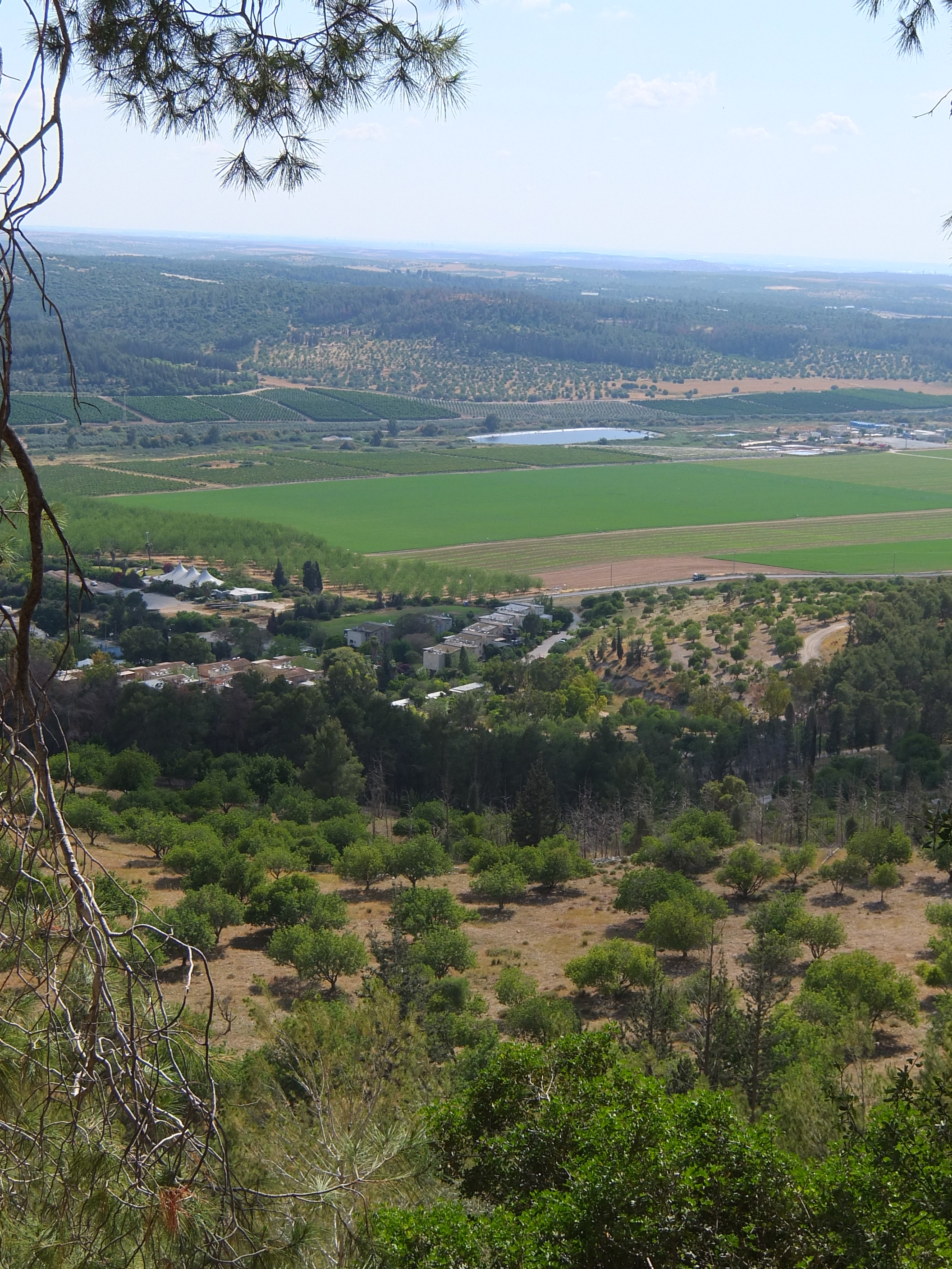 Kibbutz Tzora, Israel